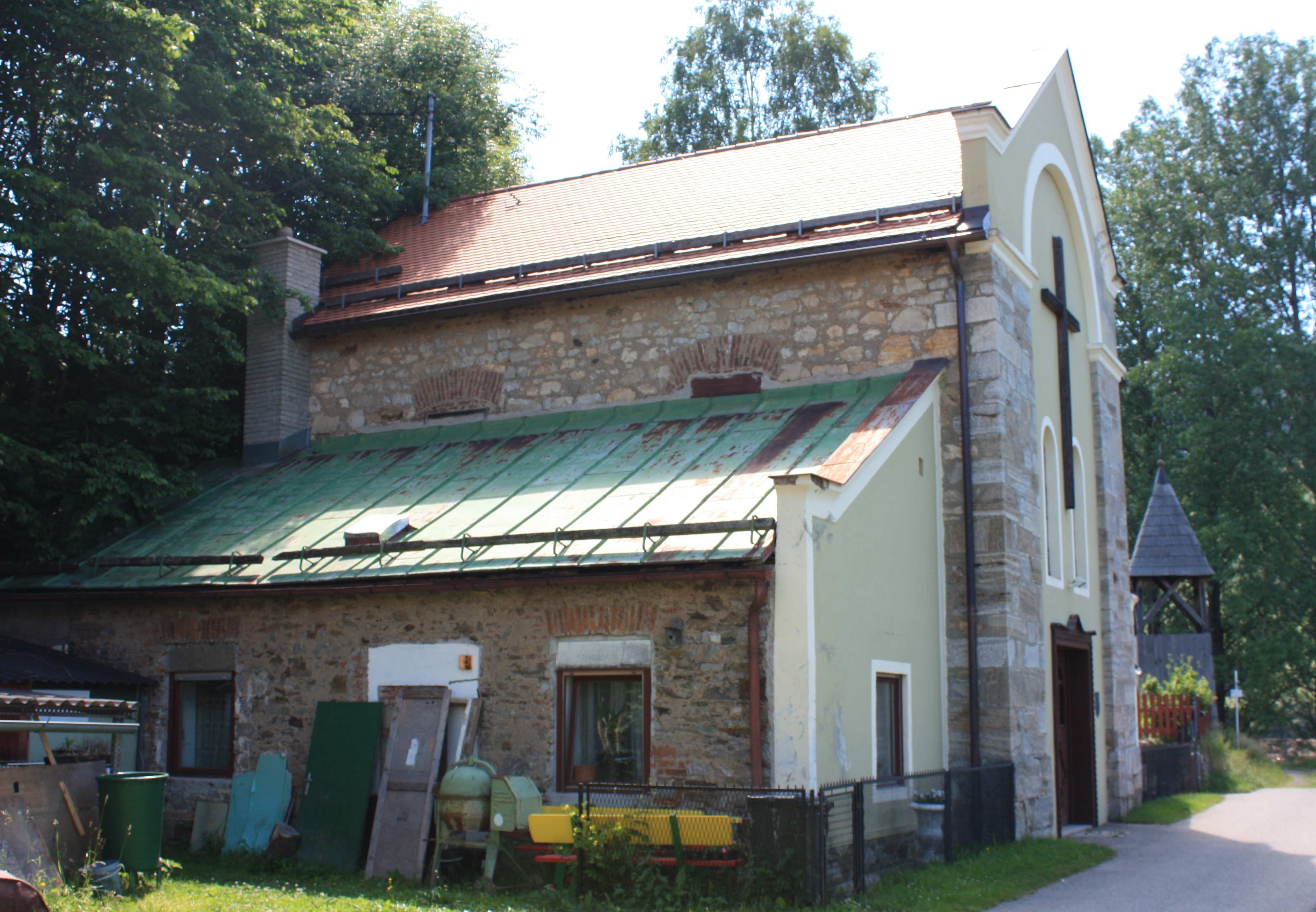 Barbara-chapell Locality:Knappenberg Community:Hüttenberg